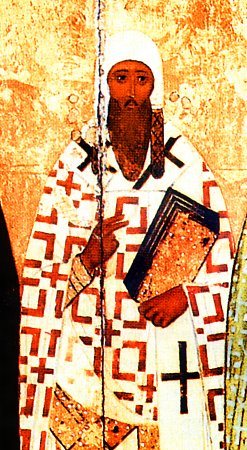 St. Ignatiy of Rostov. Portion of 18th century icon, Yaroslavl.